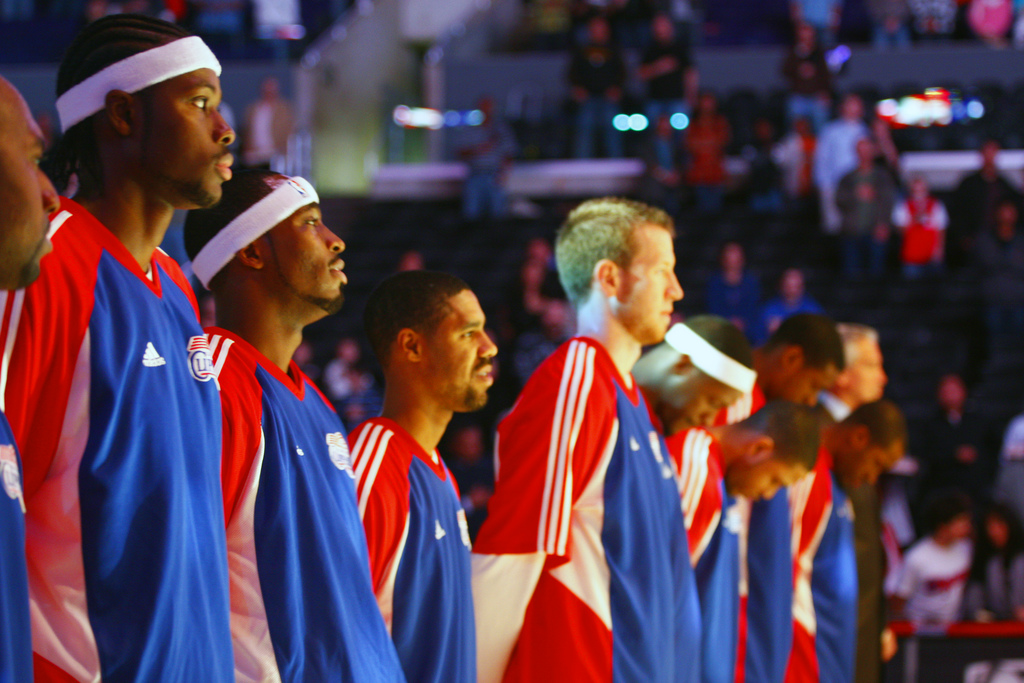 Los Angeles Clippers players stand up for the national anthem before the December 31, 2007 game against the Minnesota Timberwolves at Staples Center.